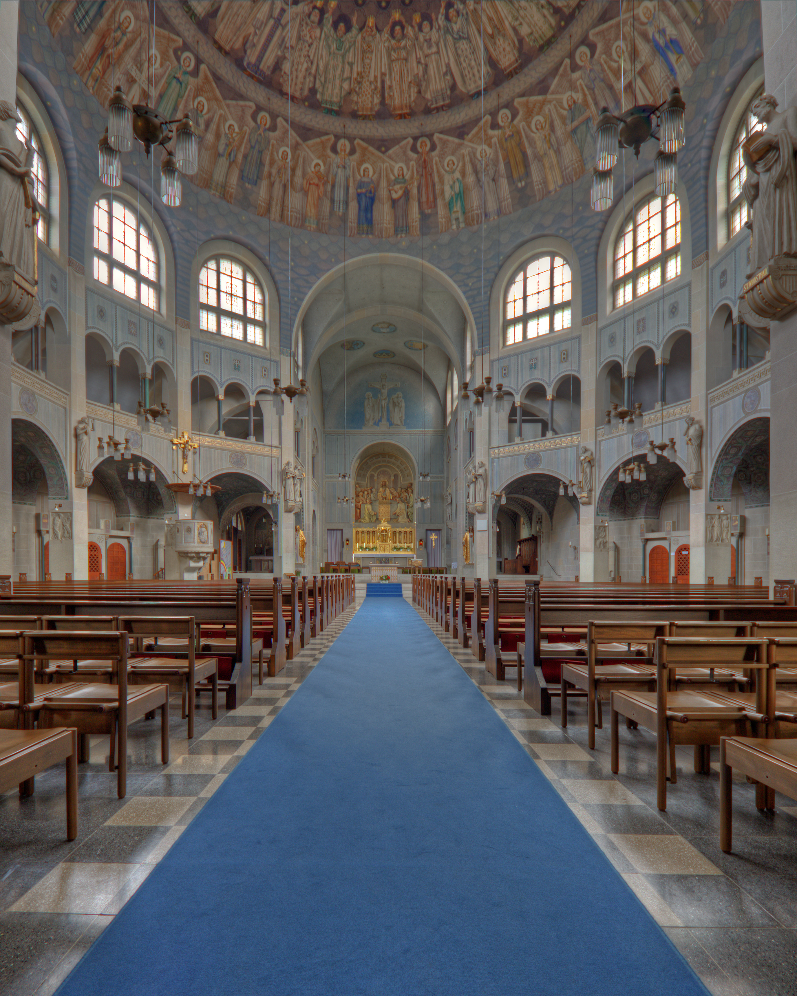 Interior of the Saint Bernard Church in Baden-Baden (BW, Germany).